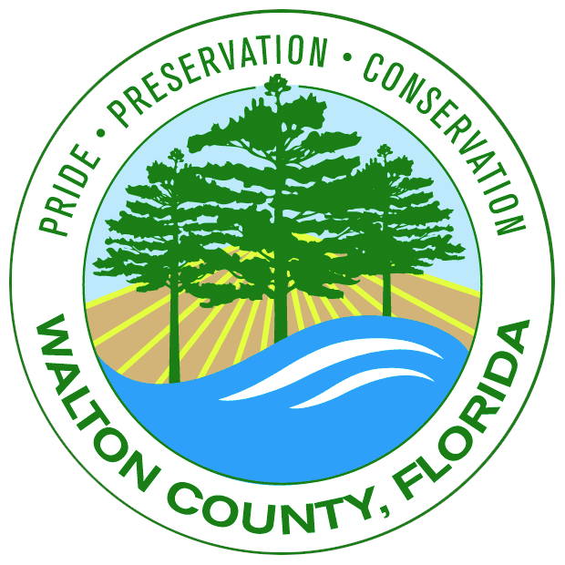 County logo of Walton County, FL.